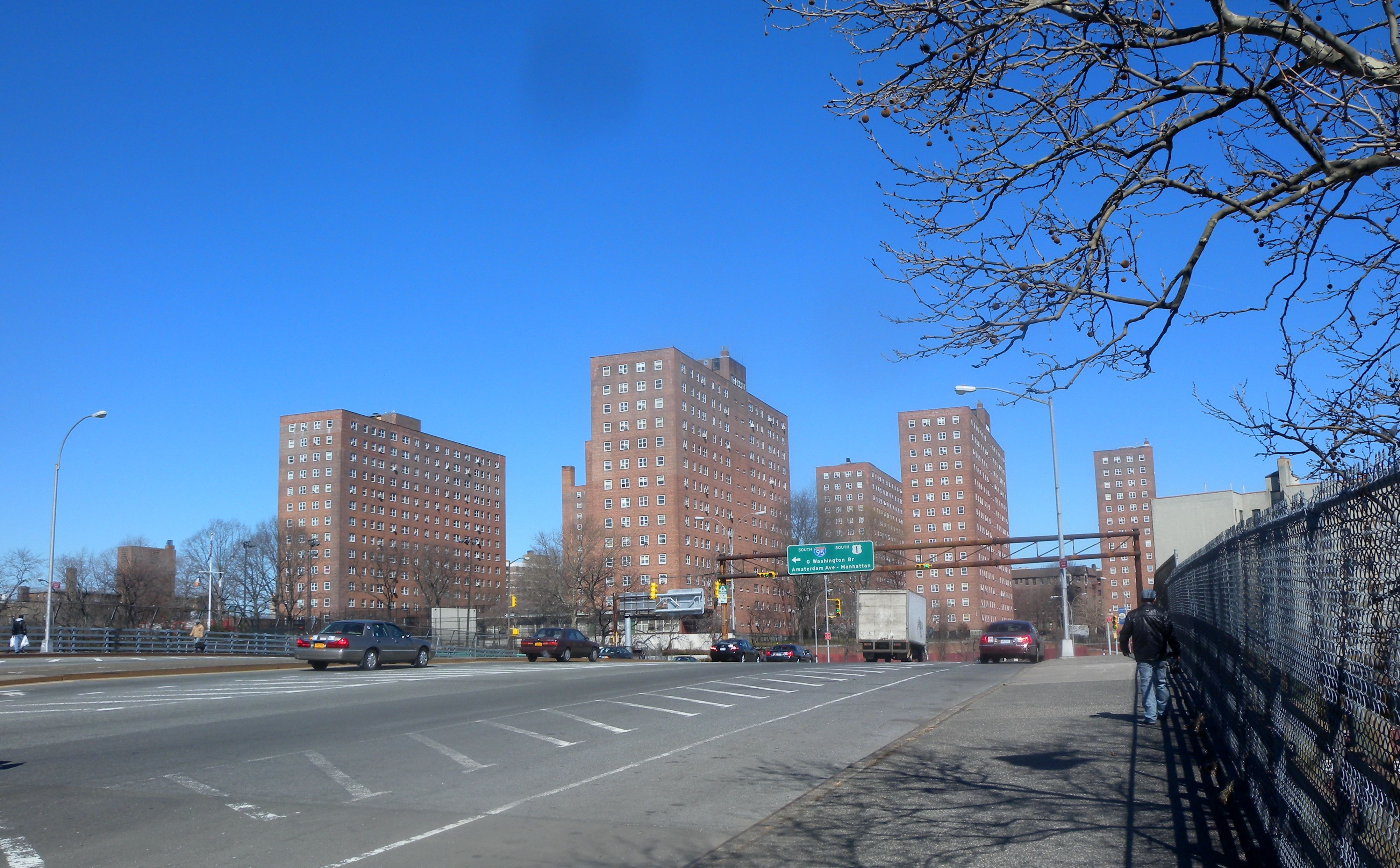 Looking north towards Sedgwick Houses as Edward Grant Highway crosses the Cross Bronx Expressway on a sunny midday.